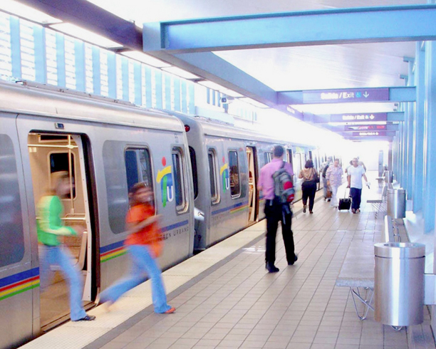 Roosevelt Station of the Tren Urbano. Photo by Felix Lopes used with permission.